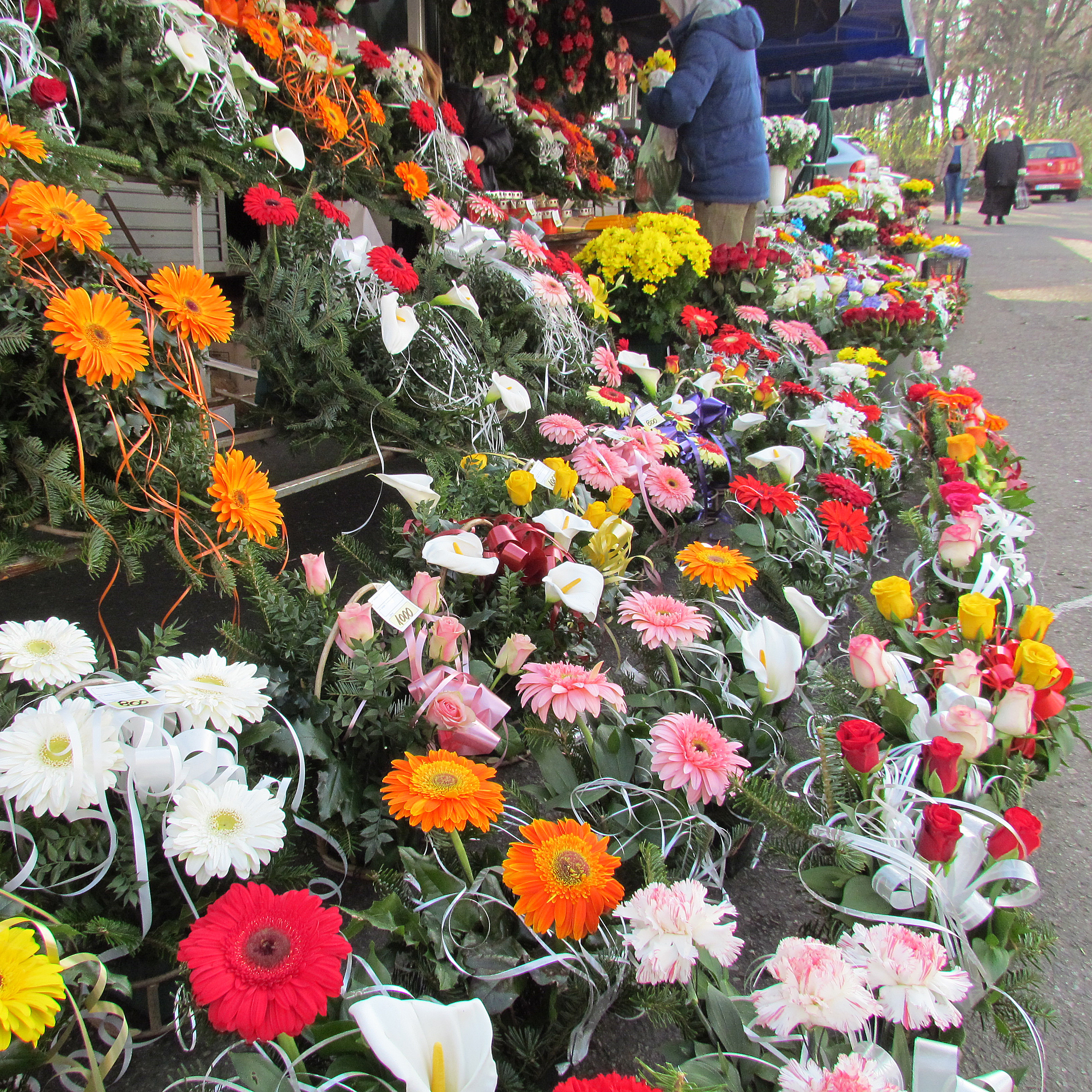 Winter's zadušnice, Central cemetery, Belgrade